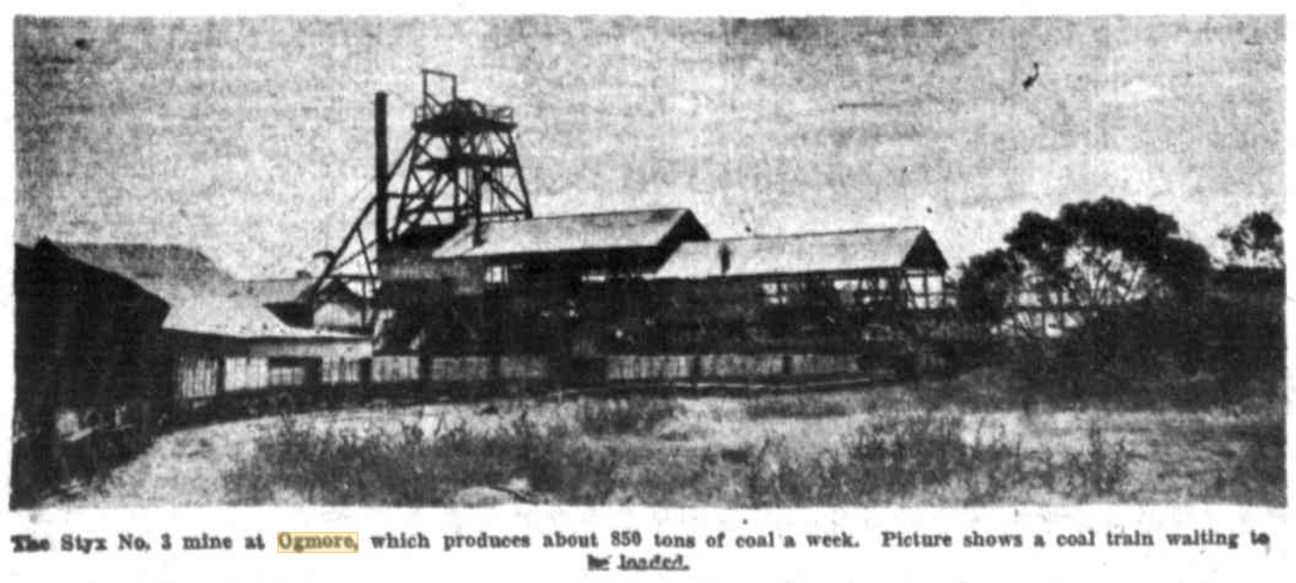 Styx No. 3 Mine at Ogmore, which produces about 850 tons of coal a week. Picture shows a coal train waiting to be unloaded.